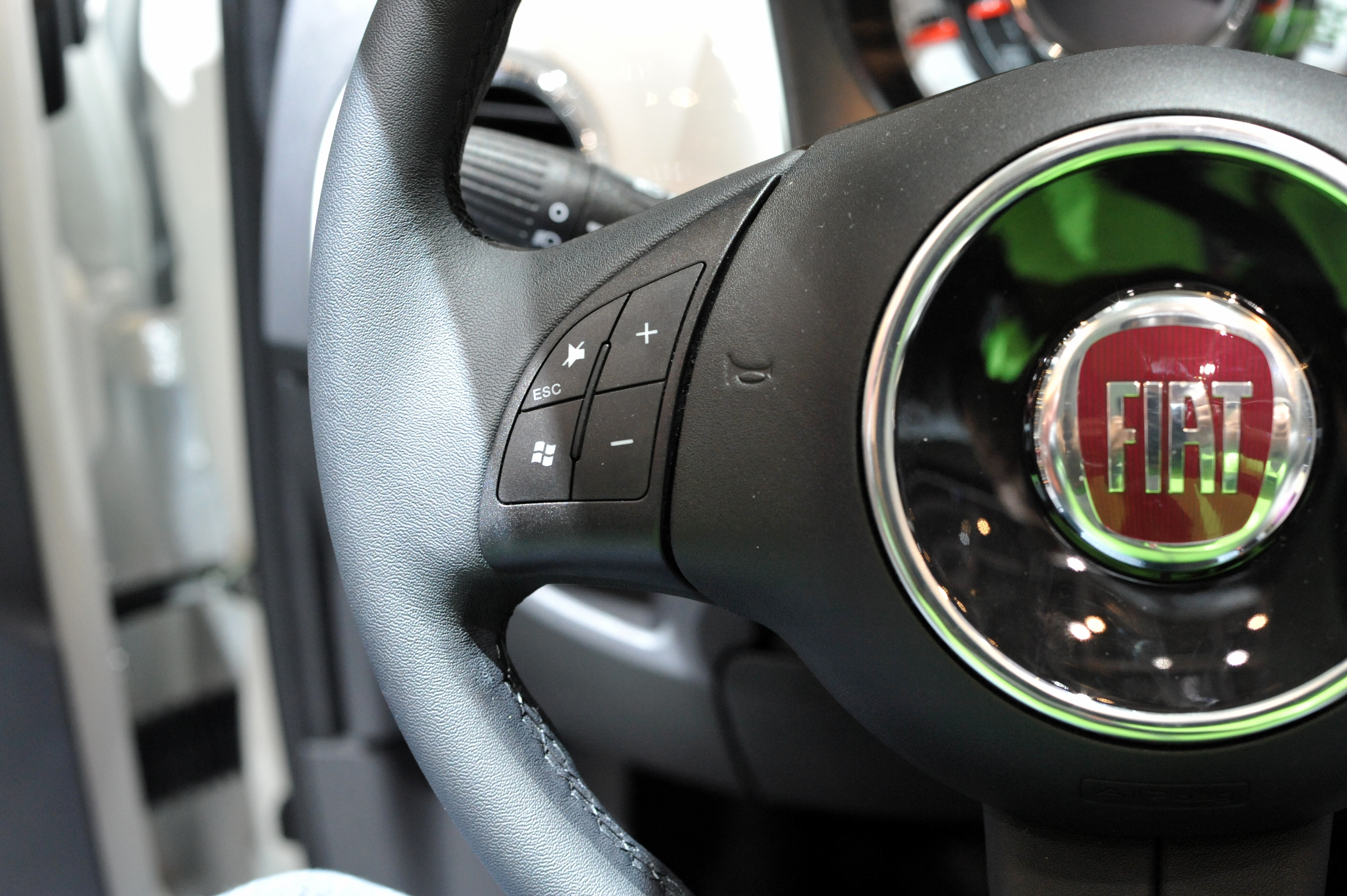 Fiat car steering wheel featuring Microsoft Blue&Me car navigation and call answering system.